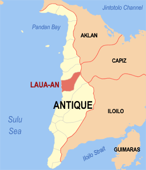 Map of Antique showing the location of Laua-an